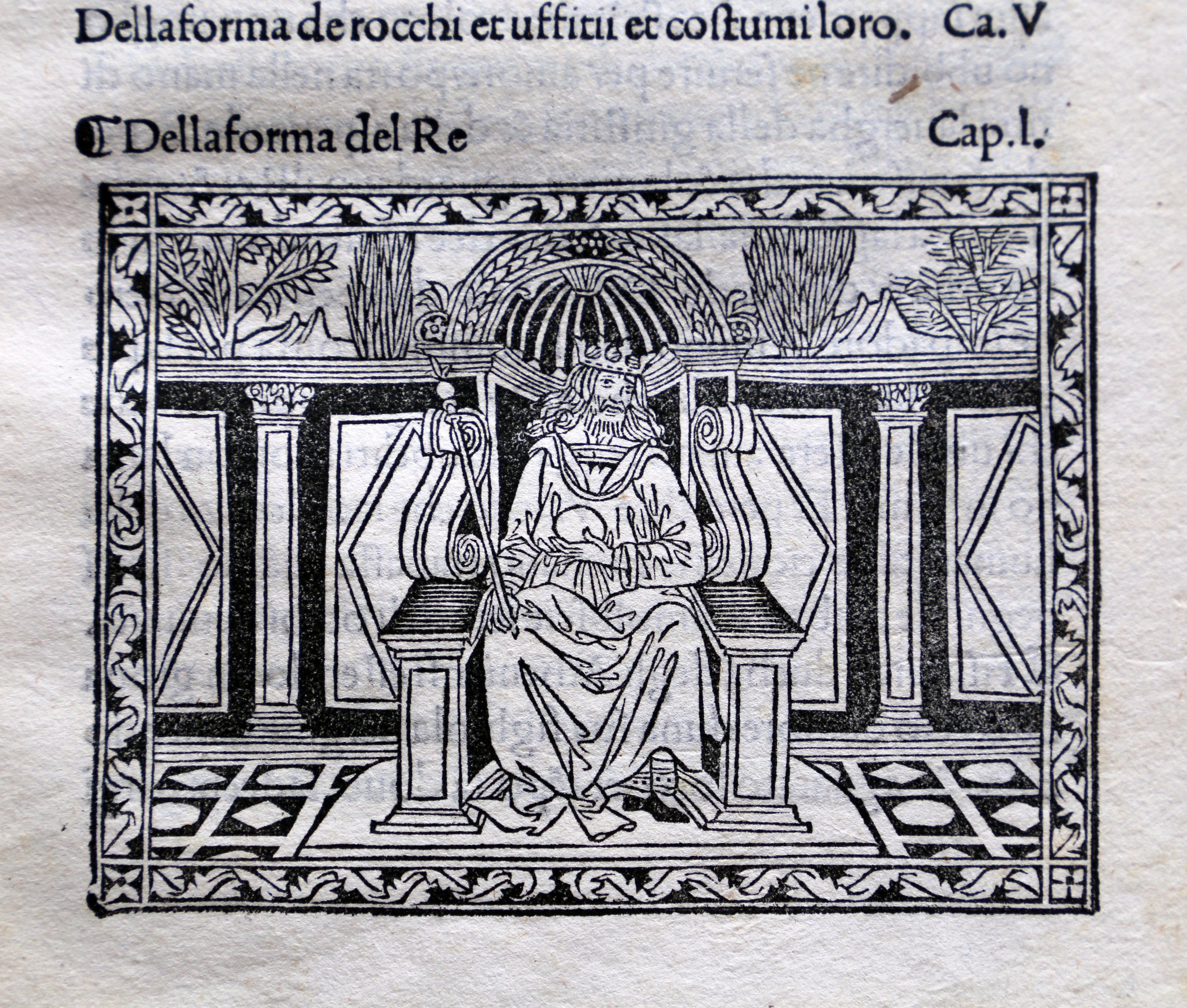 Libro di giuocho di scacchi (Crusca)